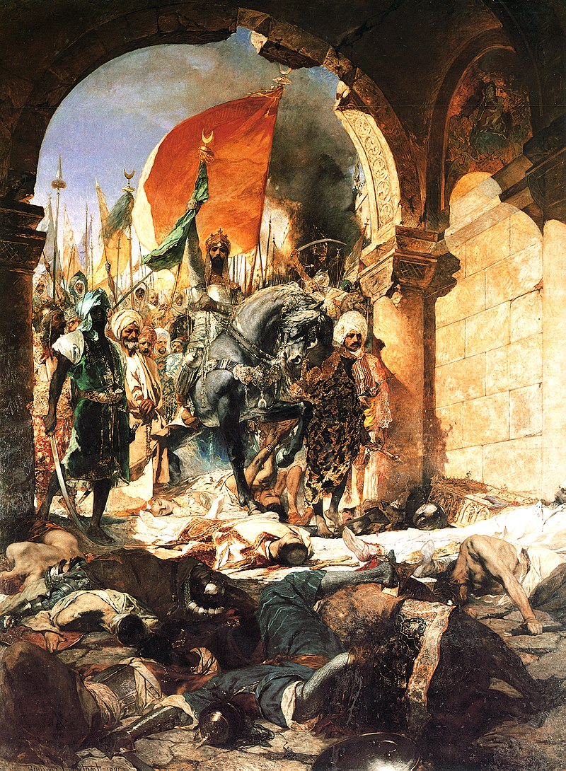 II. Mehmet'in İstanbul'a girişi - Jean-Joseph Benjamin-Constant (1876)